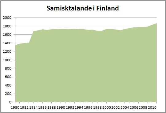 Sami speakers in Finland 1980-2011, according to Statistics Finland